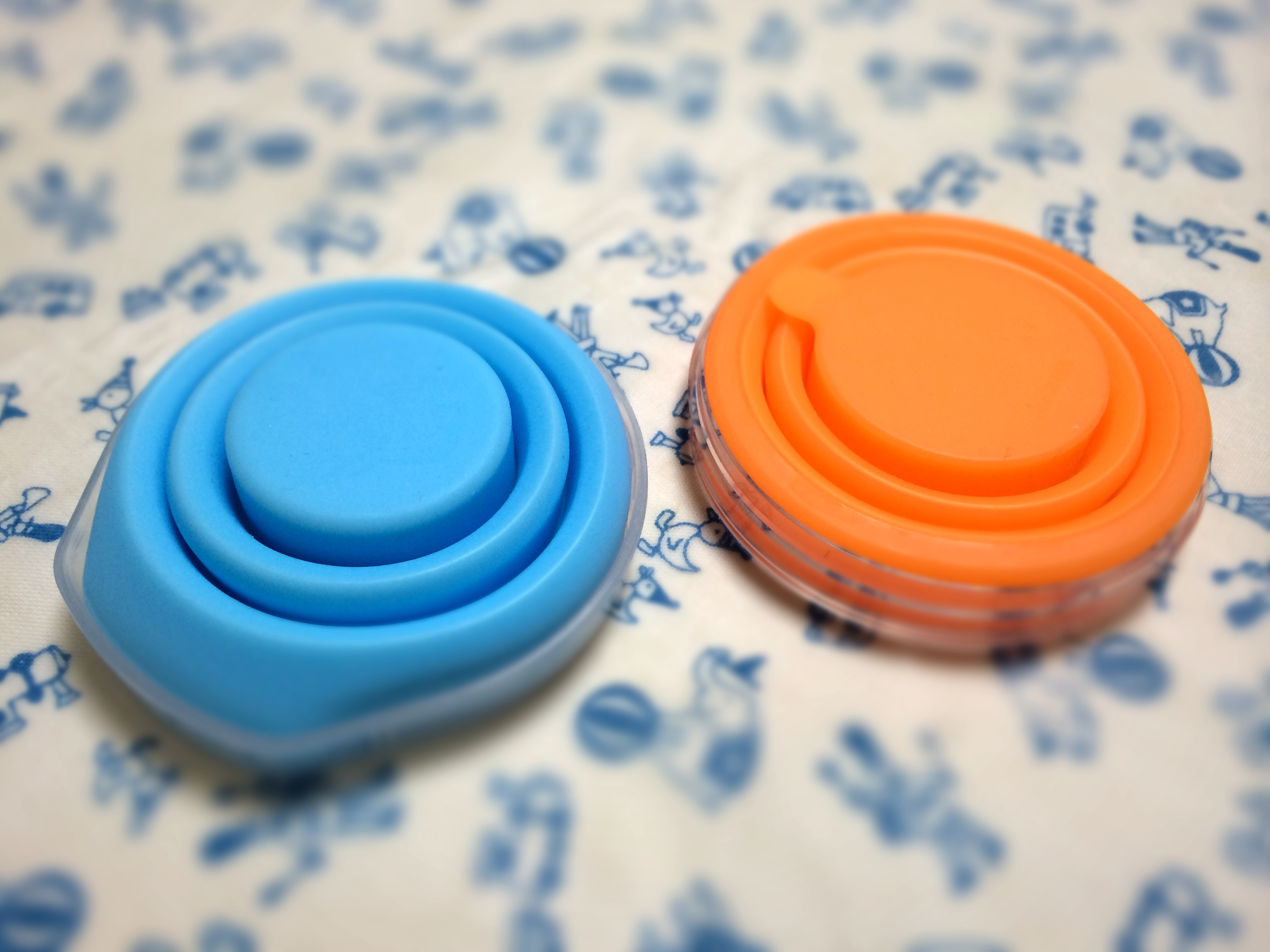 iPhoneから送信